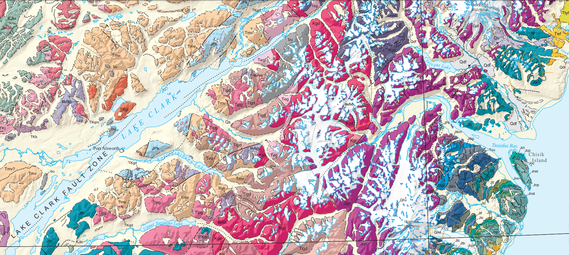 Lake Clark geologic map. Jtk is the Jurassic Talkeetna Formation, Jqd is Jurassic quartz diorite, tonalite and diorite, Kgd is Cretaceous granodiorite, Tmv are Tertiary (Oligocene and Eocene) volcanic rocks, Tigd is Tertiary (Paleocene) granodiorite